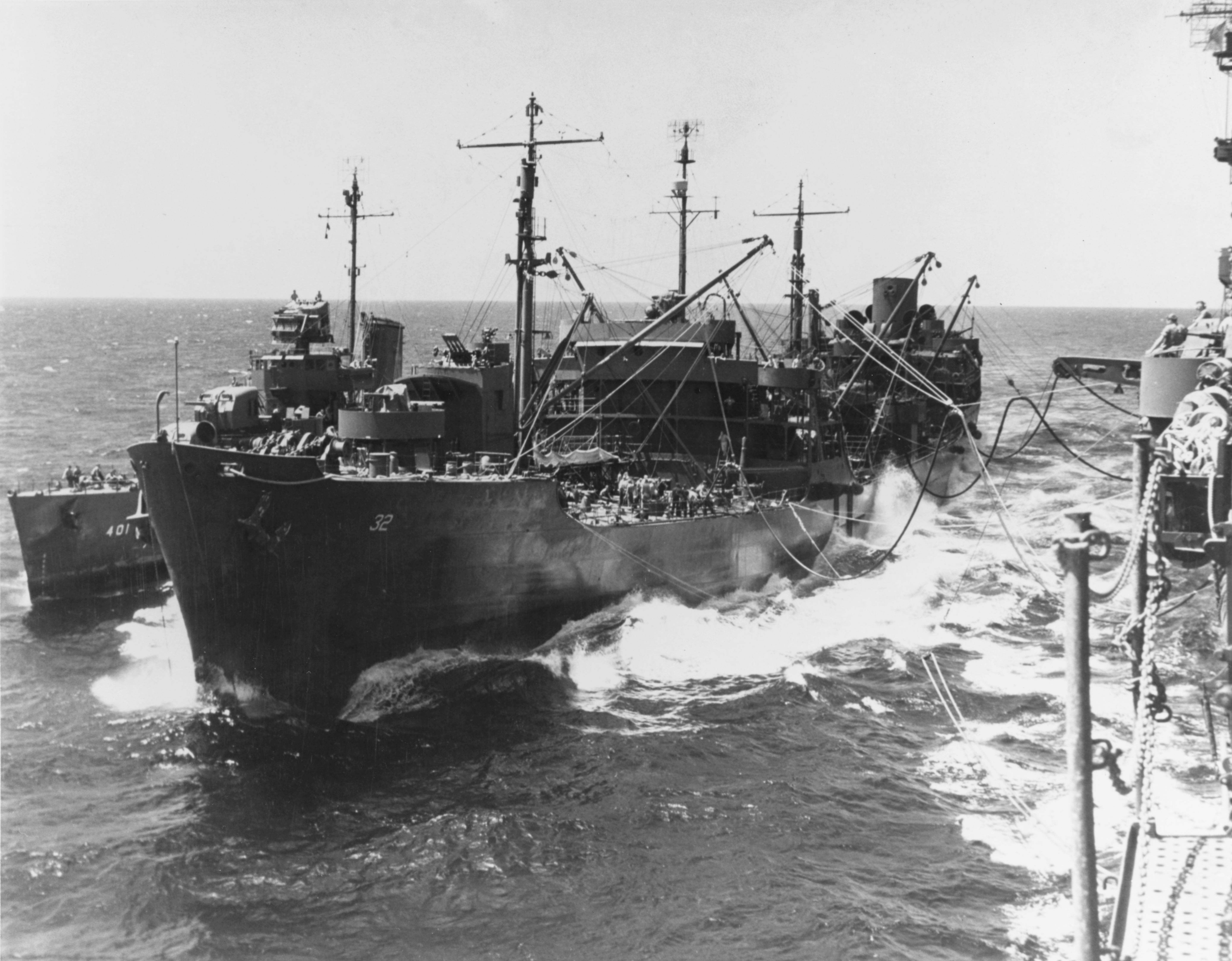 The U.S. Navy fleet oiler USS Guadalupe (AO-32) refuels the destroyer USS Maury (DD-401) and the aircraft carrier USS Lexington (CV-16) at sea in the Gilbert Islands area, 25 November 1943. Note the 1.1"/75 caliber anti-aircraft gun (28 mm) aboard Guadalupe.